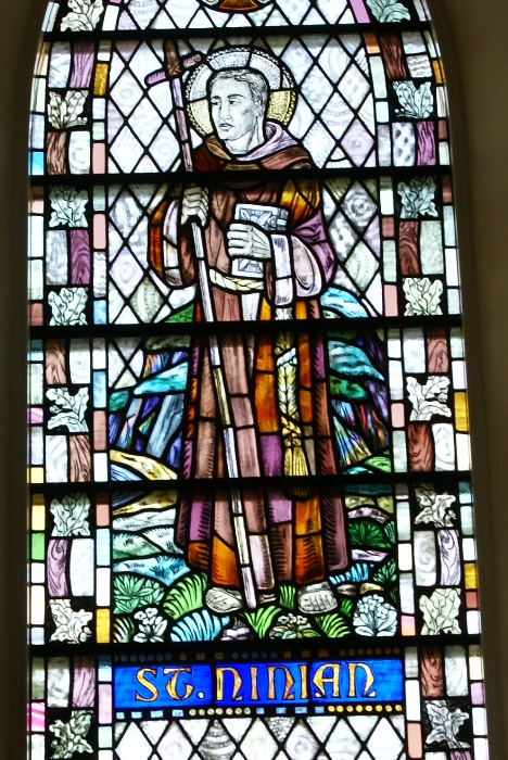 Whithorn Priory - St Ninian's Parish Church - stained glass window: St Ninian